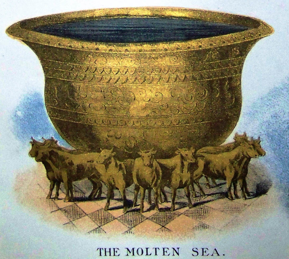 Articles of the Biblical Tabernacle and Temple, illustration from the 1890 Holman Bible